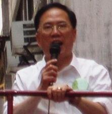 Donald Tsang, who thanked for supports on a bus on Paterson St., Causeway Bay, Hong Kong (focus on face)